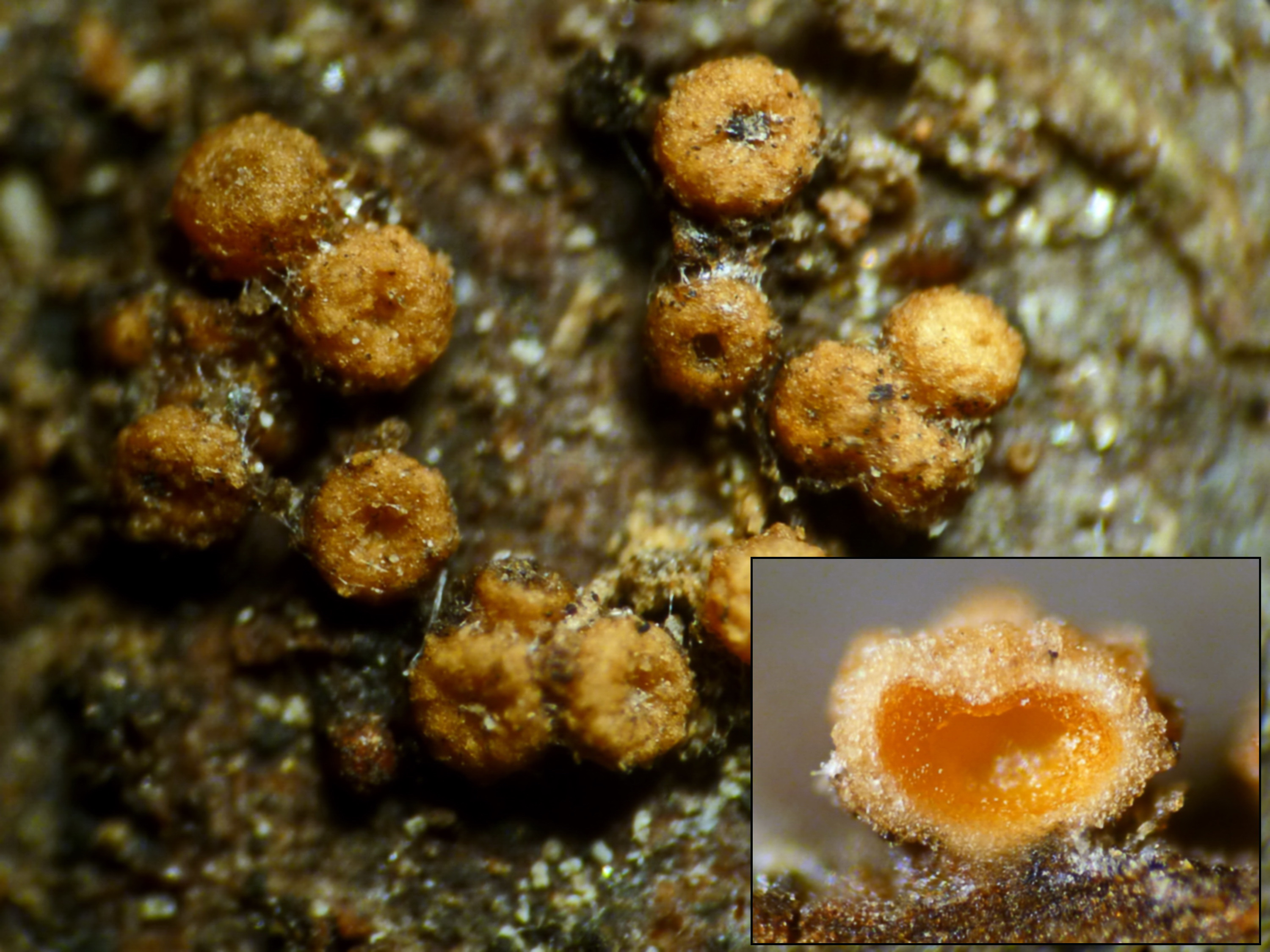 Ascocarps of the ascomycete fungus Bionectria ralfsii. Photographed in Braga, Portugal. "Notes: On a Cytisus scoparius dead branch (specimens dried)."